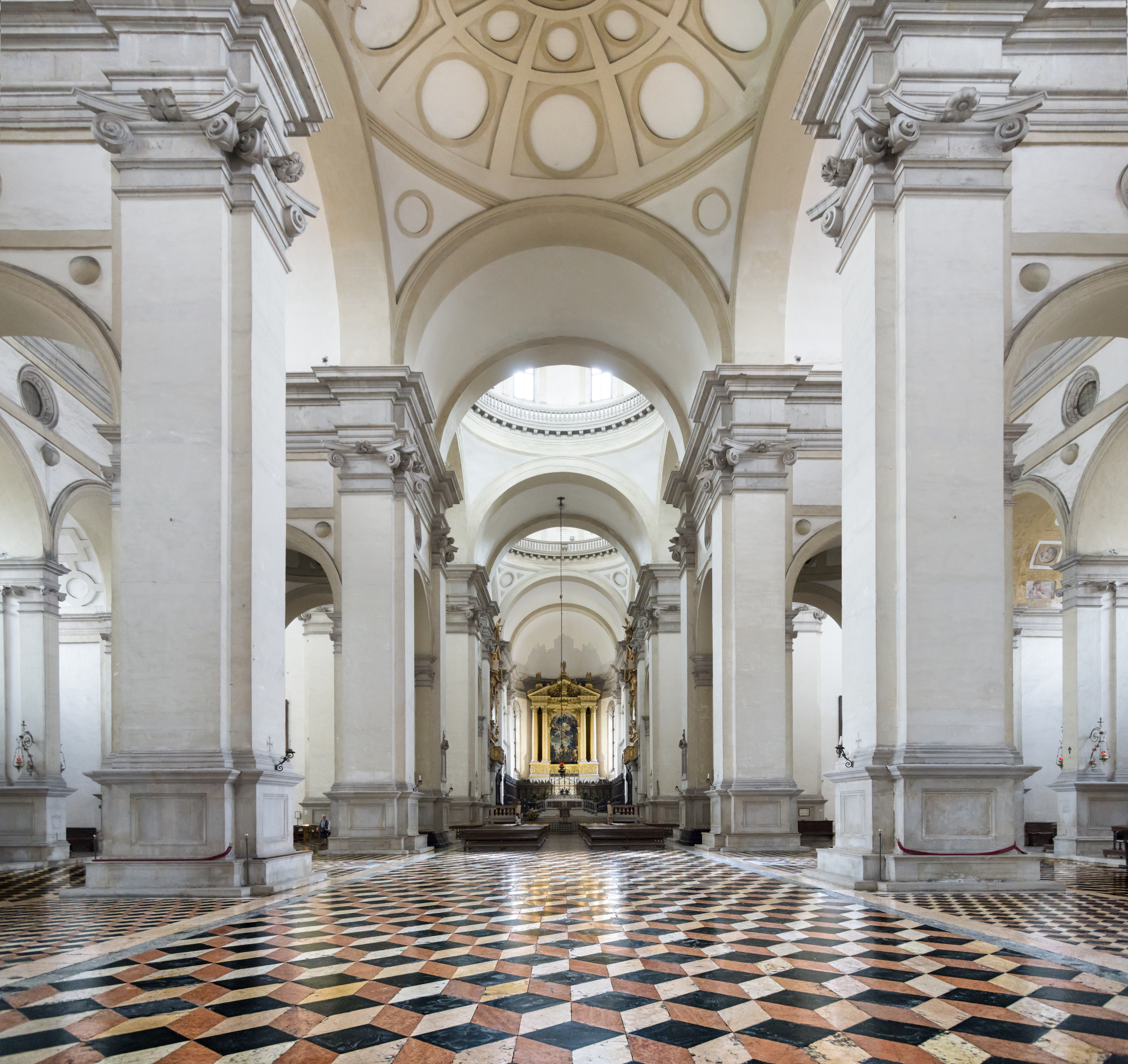 Churche Saint Justina of Padua in Italy. Interior view.